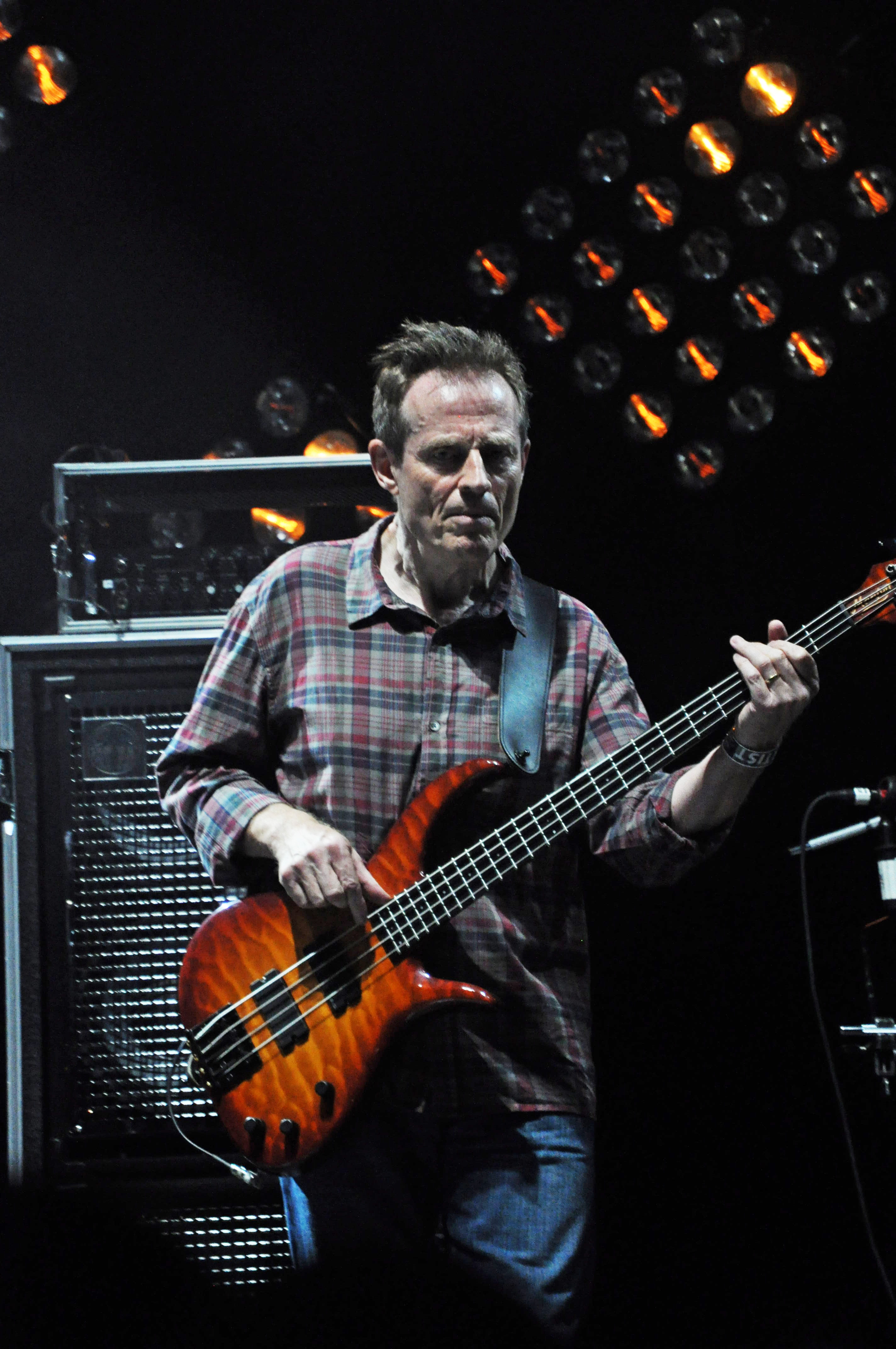 John Paul Jones #2